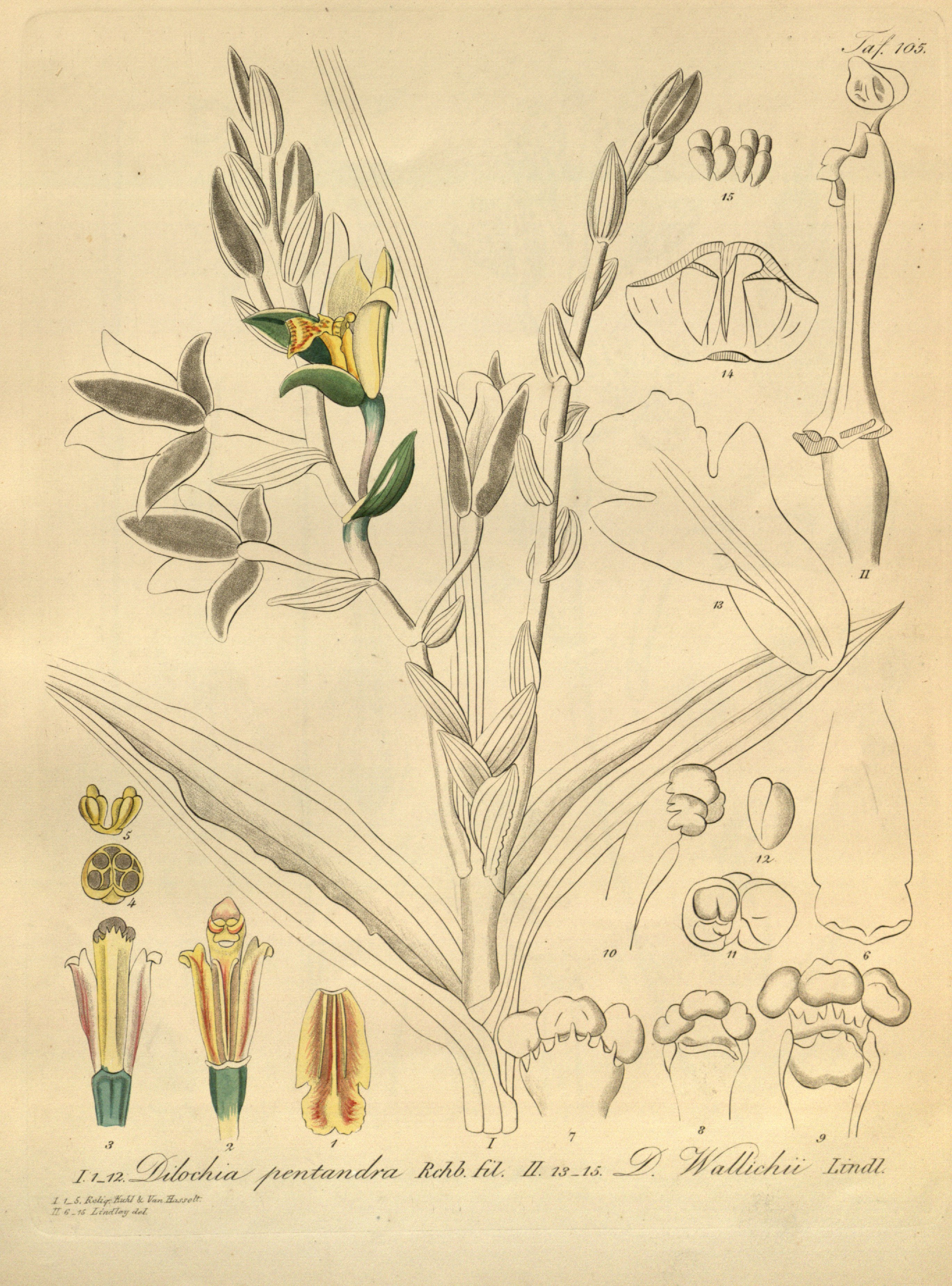 Illustration of Dilochia wallichii (as syn. Dilochia pentandra)